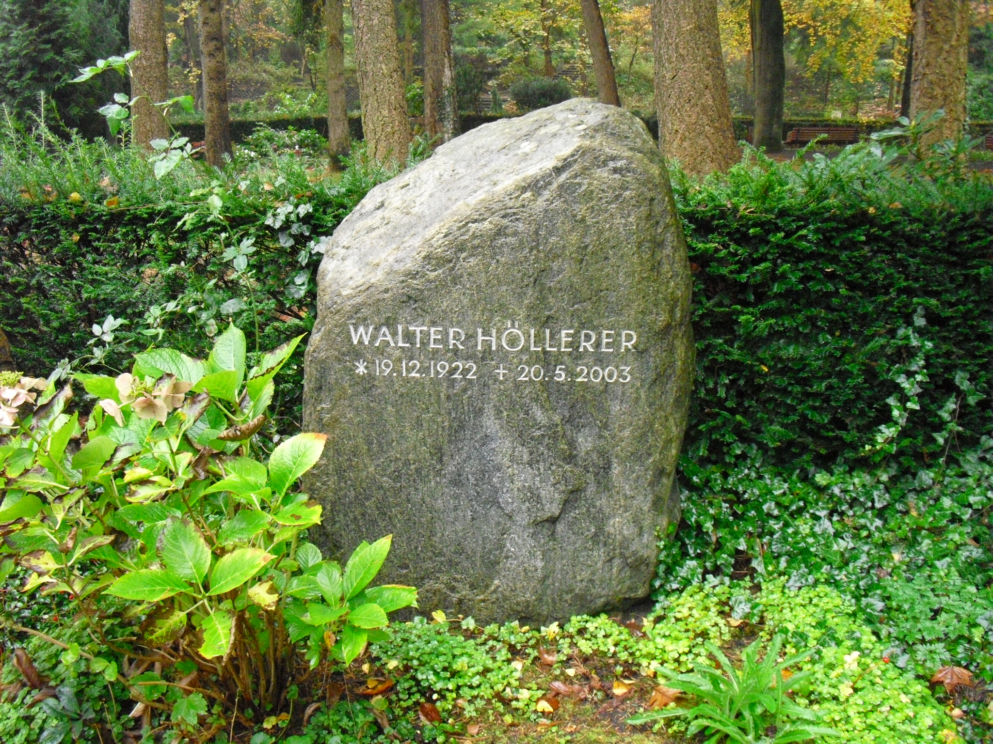 Grave of German writer Walter Höllerer in Friedhof Heerstraße in Berlin-Westend